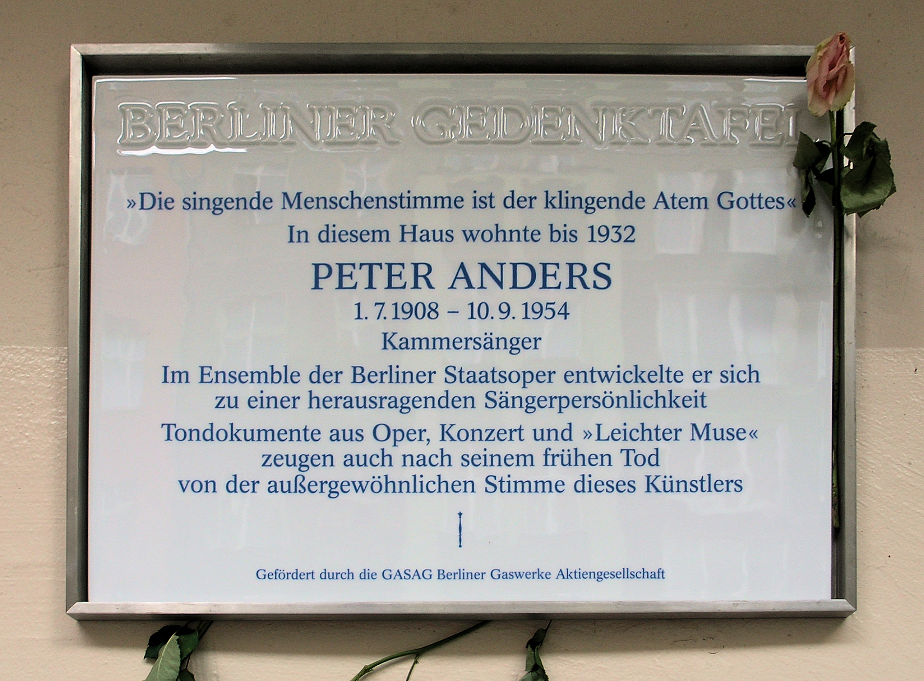 Berlin memorial plaque, Peter Anders , Thomasiusstraße 25, Berlin-Moabit, Germany Koordinate:52°31′25″N 13°21′3″E / 52.52361°N 13.35083°E